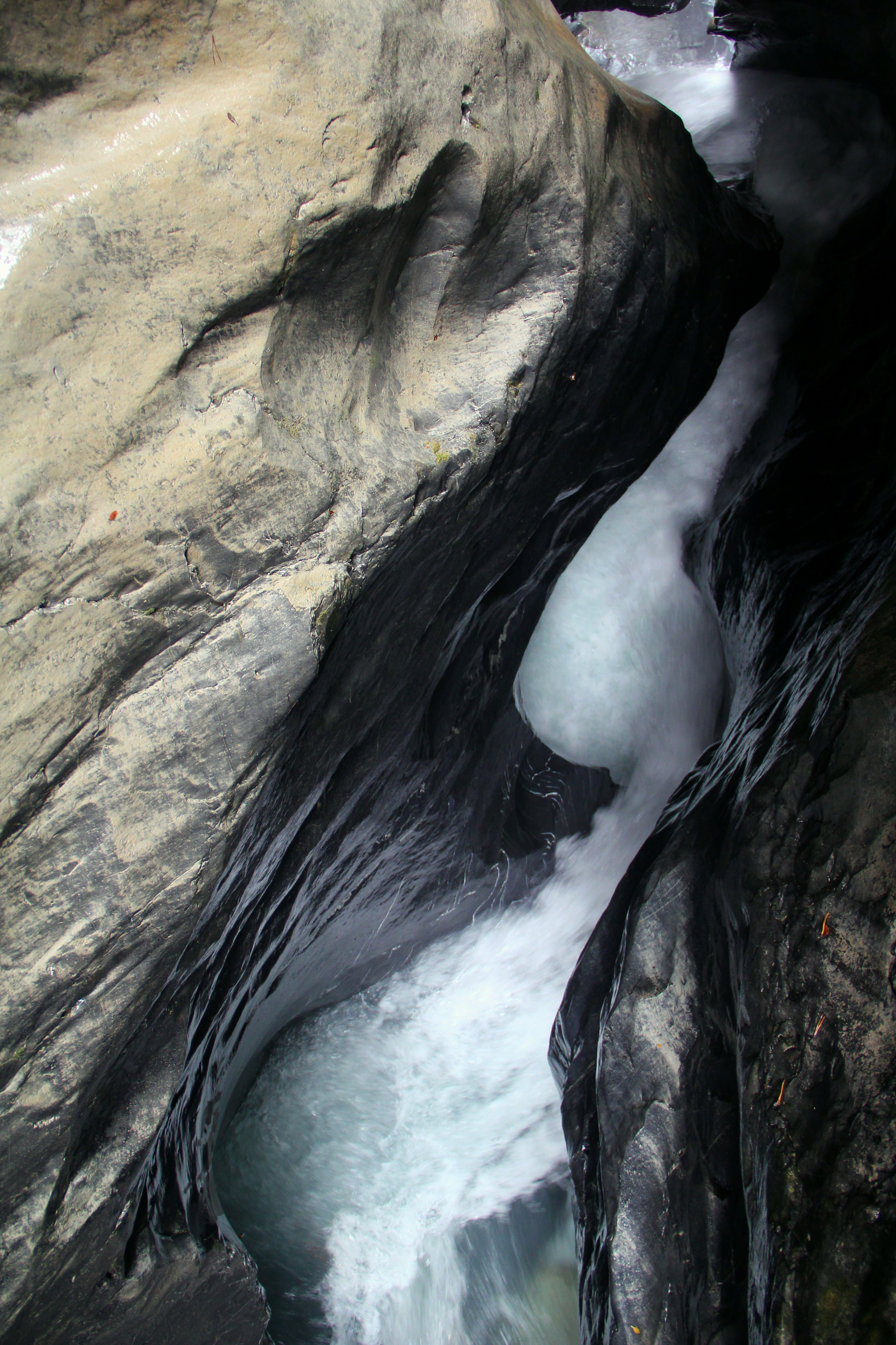 The so-called "Corkscrew" chute at Trummelbach Falls, near Lauterbrunnen, Switzerland.